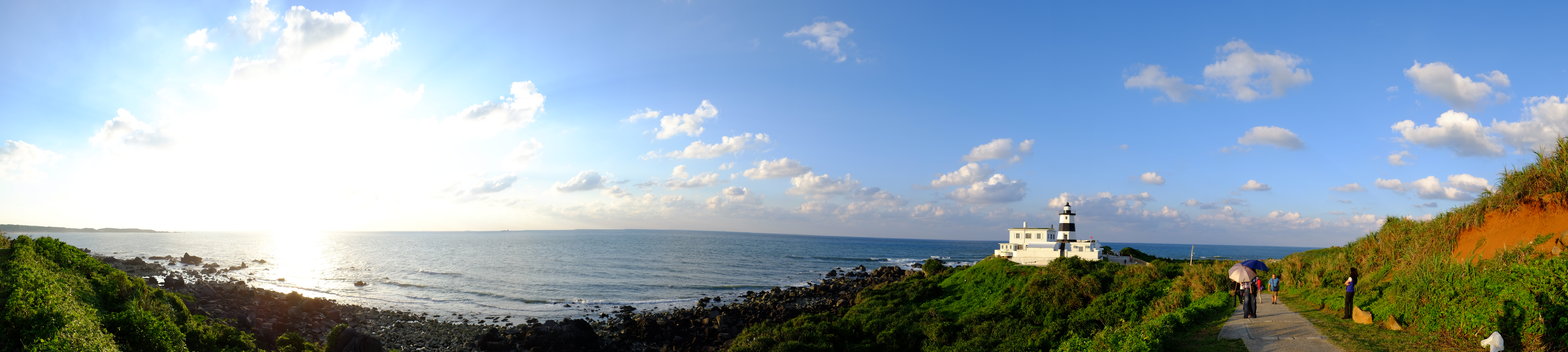 Fugueijiao Lighthouse